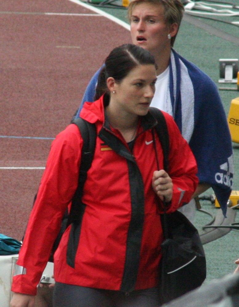 World Athletics Championships 2007 in Osaka - German Javelin thrower Linda Stahl, in the background Barbora Špotáková